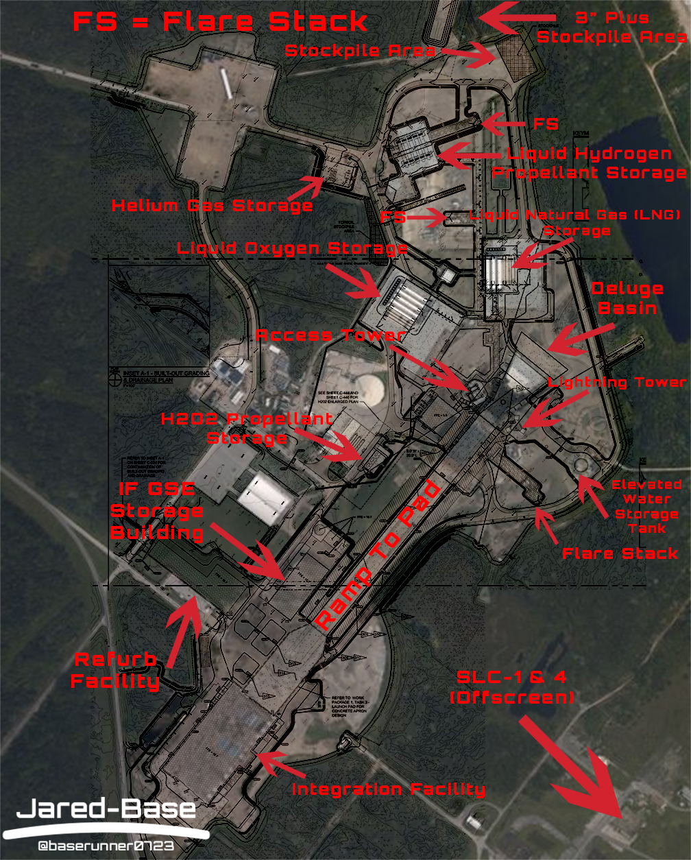 Blue Origin is working on their Orbital Launch Pad at Cape Canaveral Air Force Station. After Hurricane Dorian past near the space coast, NOAA took high resolution, aerial photographs of the coast line. They managed to capture Blue Origin in the process of constructing the launch pad. With plans found from permits with the St. Johns Water Management District website, I was able to overlay the site plans onto NOAA's aerial photos of the site to provide a glimpse into the future of what will be at the site.